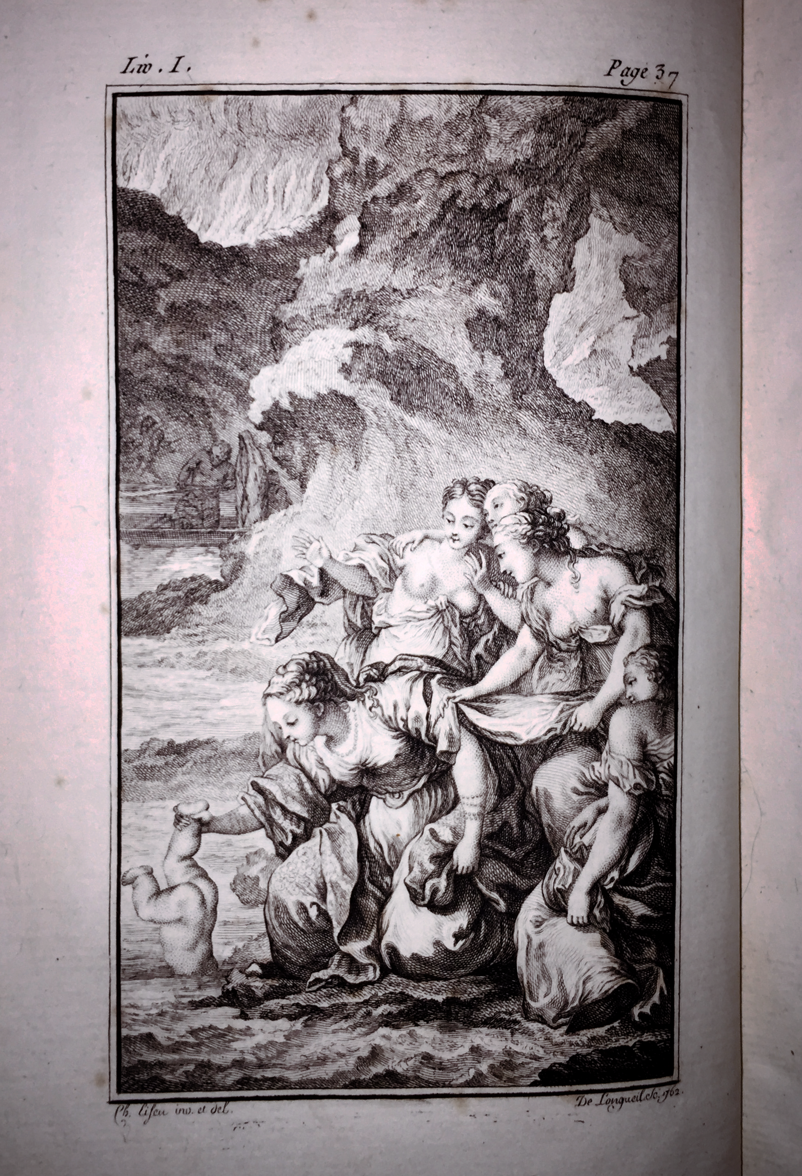 Illustration From The Emile Or The Education